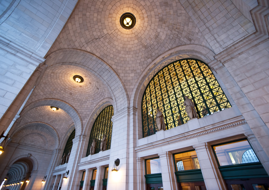 Entrance area of Union Station Washington, D.C., USA